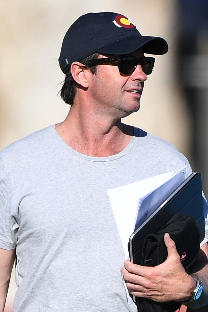 Hamish McLachlan during Melbourne training at Traeger Park on Saturday, 20 July 2019 in Alice Springs, Northern Territory.